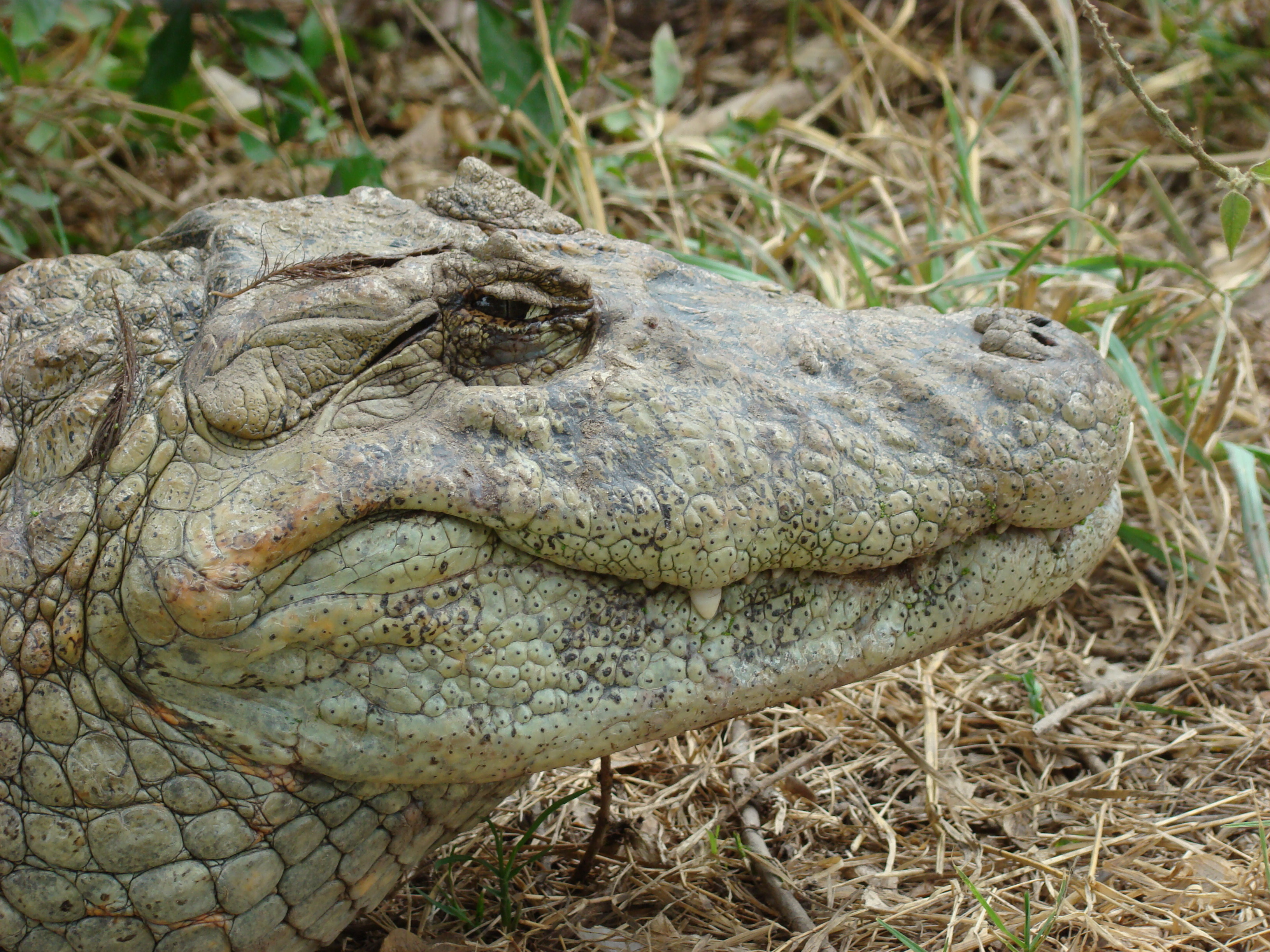 Caiman latirostris